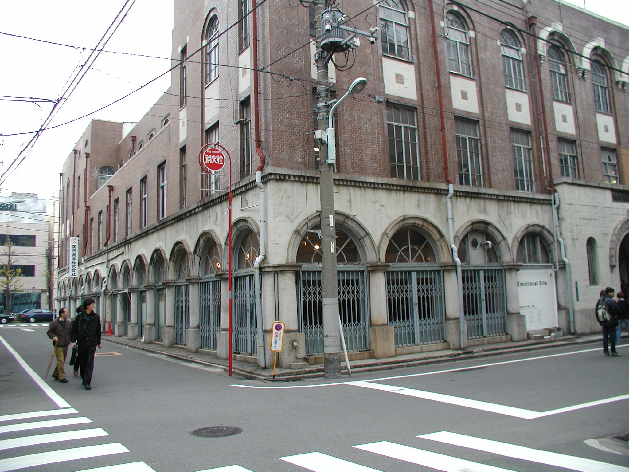 Shokuryo Building